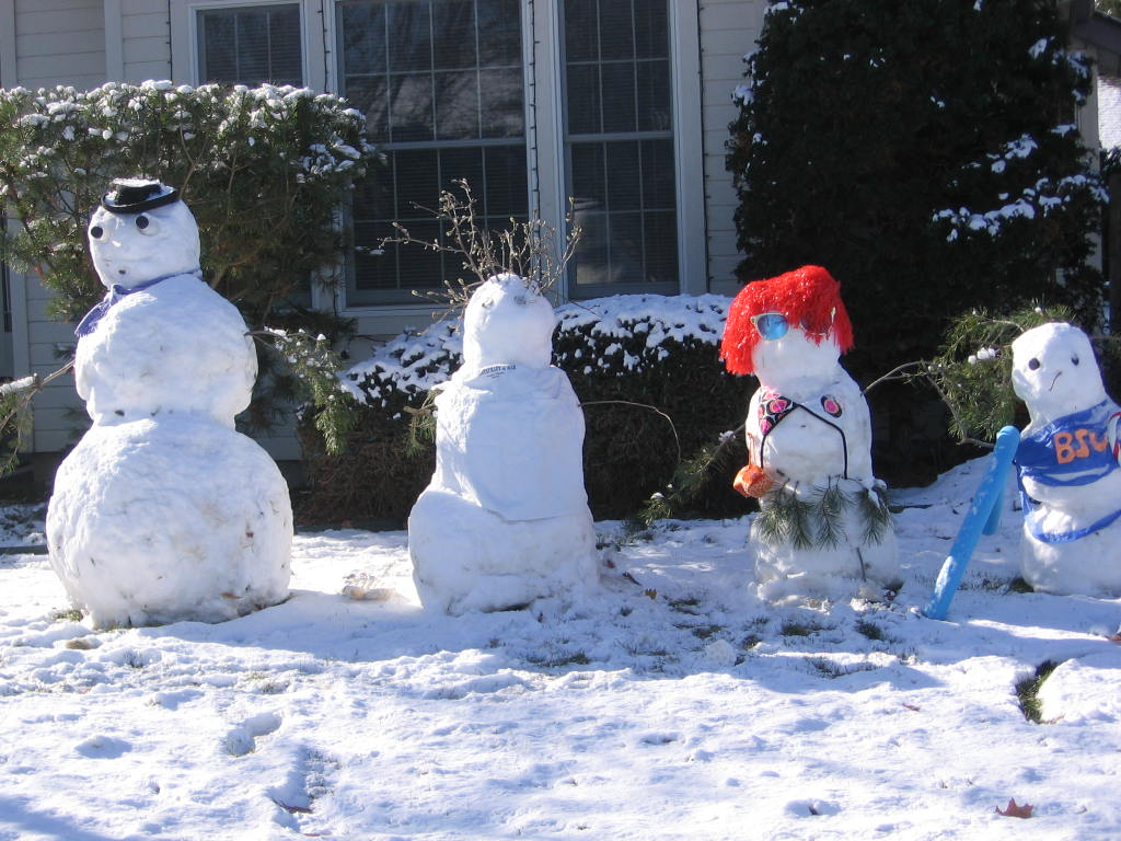 A snowfamily in Boise, Idaho in November 2010.